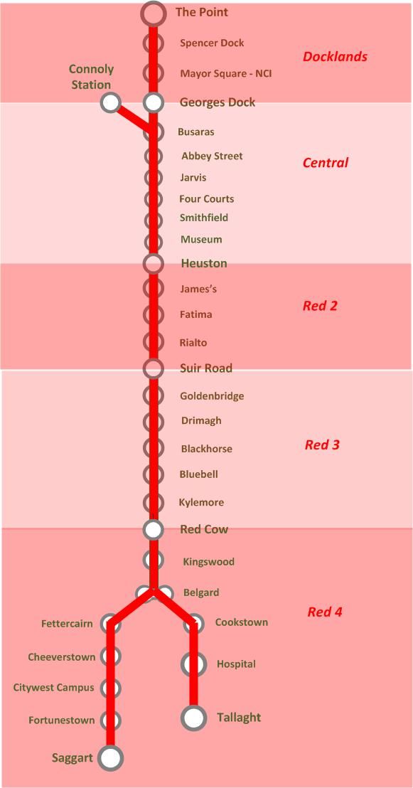 Line-map with stops and zones of the Luas Red Line as per 2nd July 2011